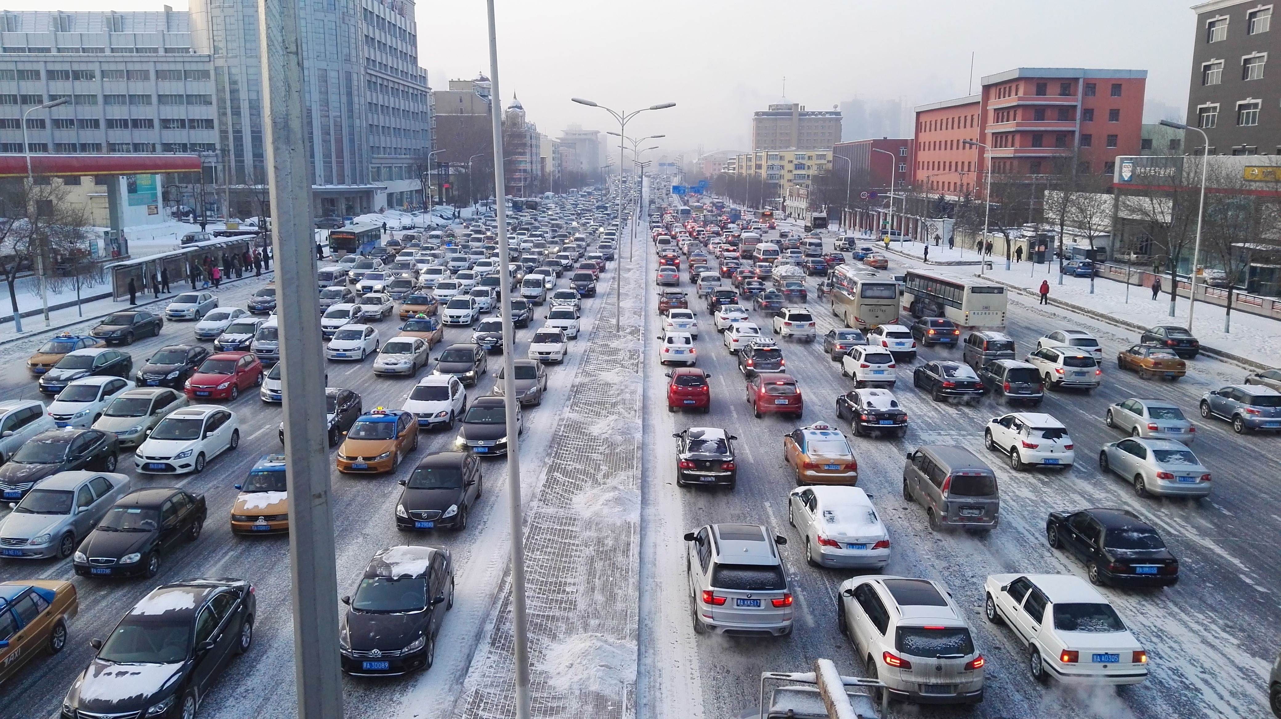 Wenchang Street, Harbin, China